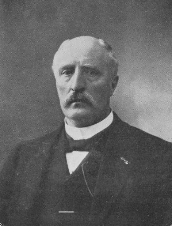 name P. B. J. FERF. political affiliationLiberal Union